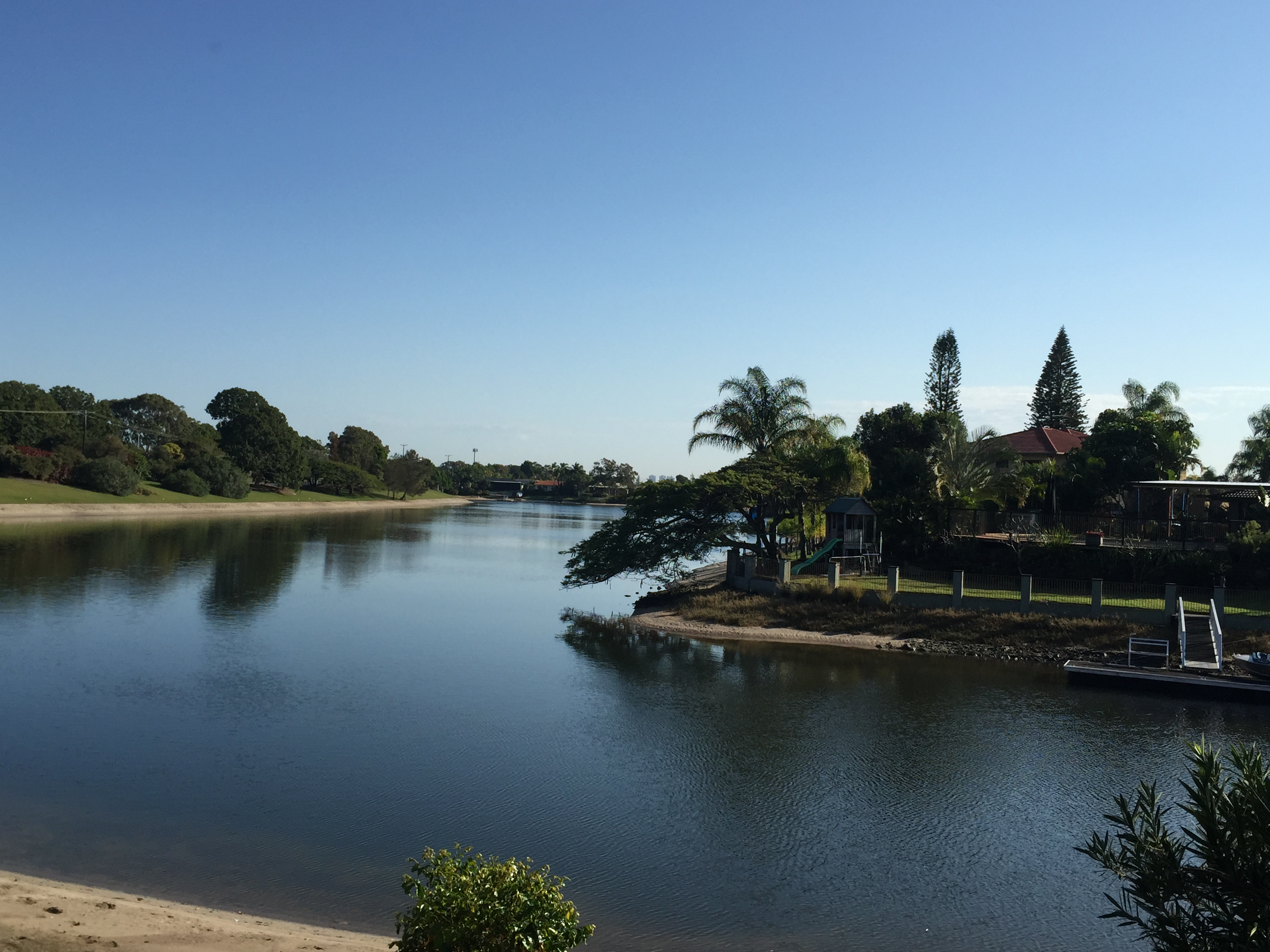 A typical canal of the suburban suburb of Mermaid Waters.